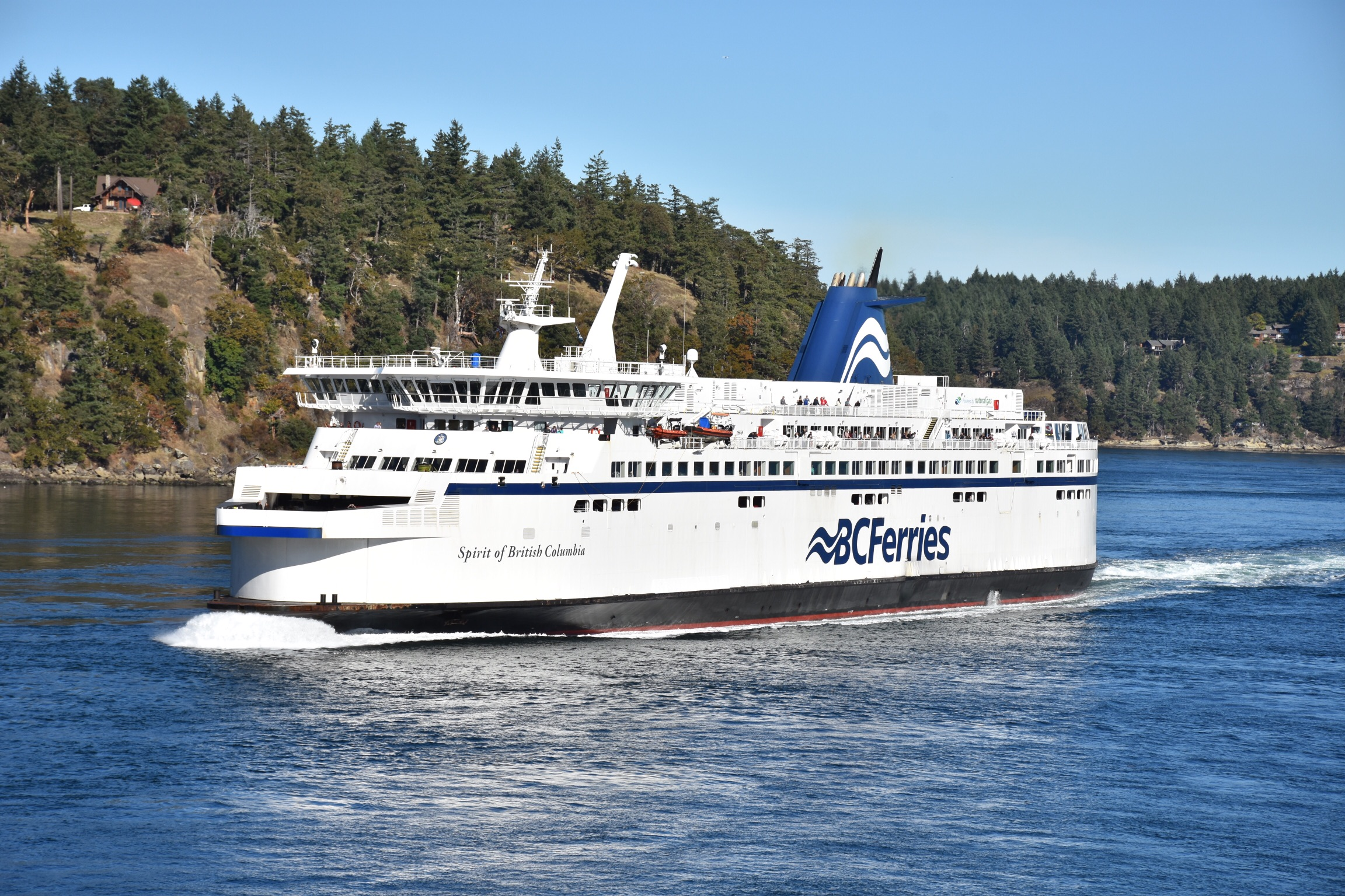 Spirit of British Columbia was first of Spirit Class to undergo mid-life refit which convert her to run of diesel and LNG fuel. She is on 3 pm sailing from Tsawwassen to Swartz Bay.